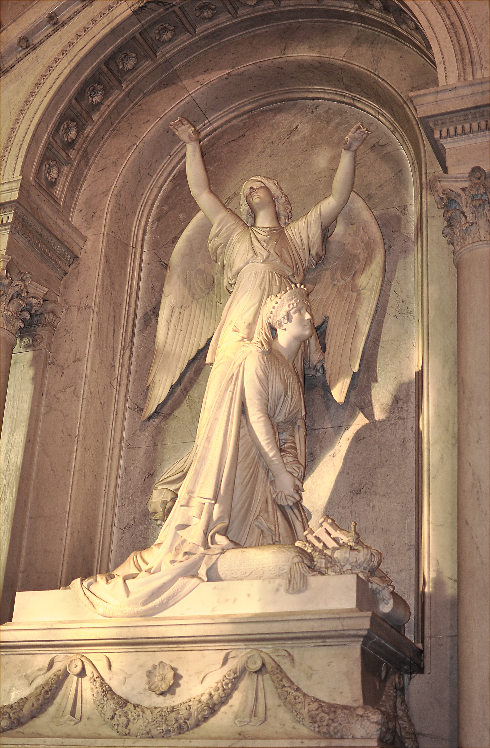 Grave of Hortense de Beauharnais in the Church Saint-Pierre-Saint-Paul in Rueil-Malmaison in the department of the Hauts-de-Seine in France. Sculpted by Auguste Barre at 1858. The grave is registred as cultural heritage.